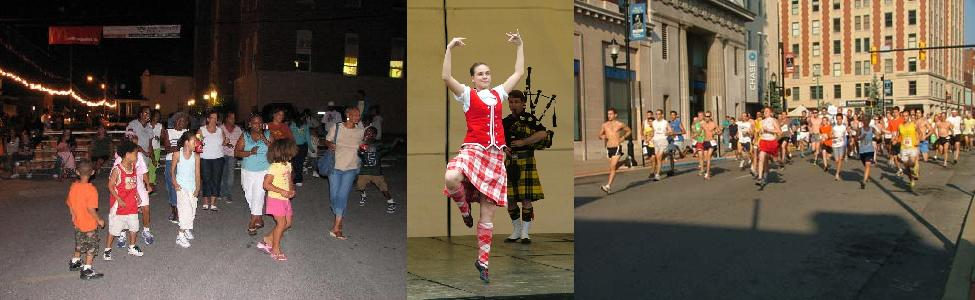 Left, the West Virginia Black Heritage Festival in Clarksburg. Center, the Scottish Festival & Celtic Gathering. Right, the West Virginia Italian Heritage Festival.